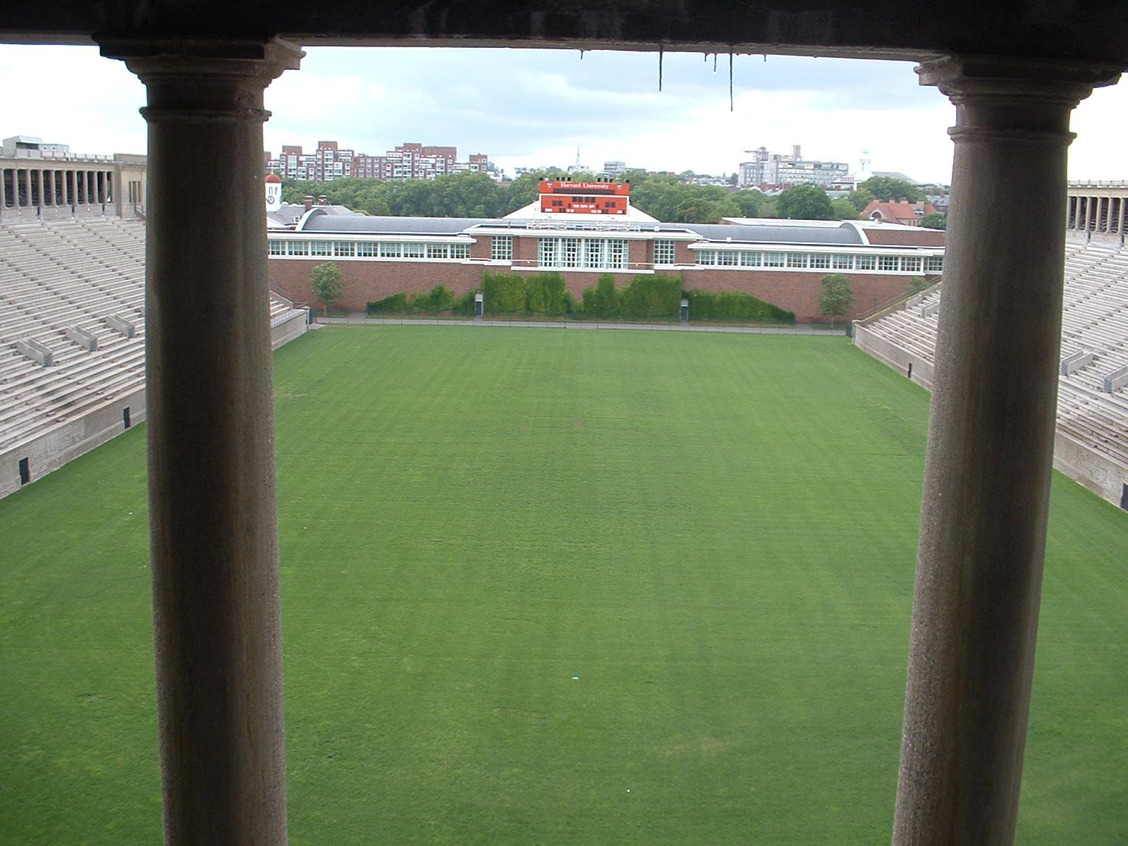 View from the southern end of the colonnade. The Murr Center, an indoor recreation facility built in 1998, is the building at the end of the stadium.